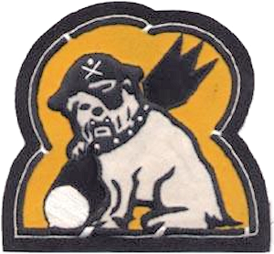 Emblem of the 494th Bombardment Squadron (World War II)